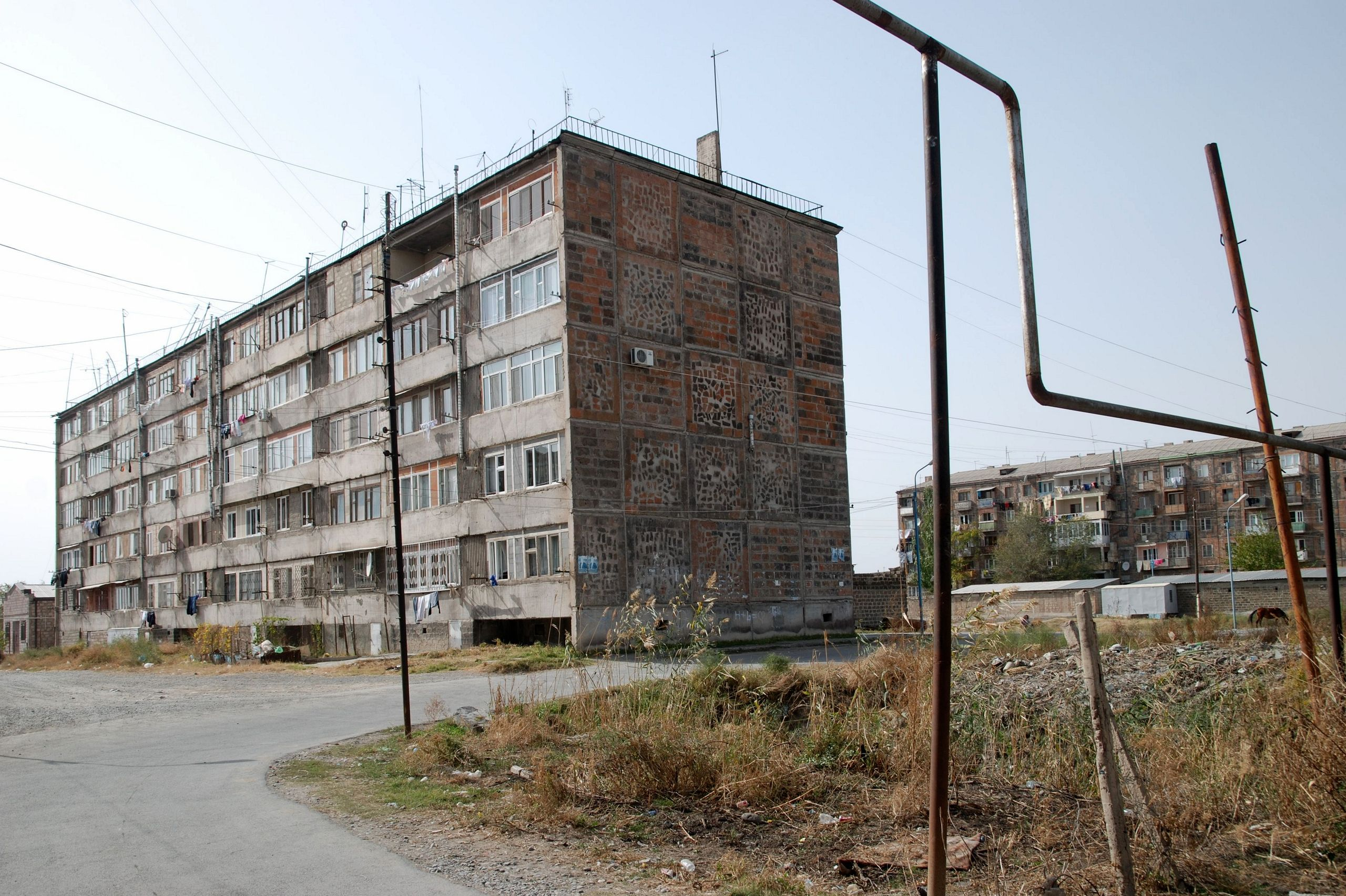 Masis, five story buildings